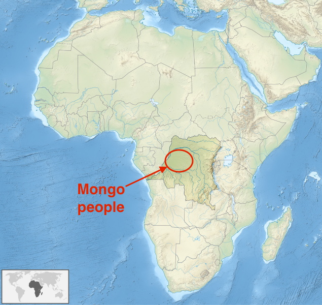 Approximate geographical distribution of Mongo people in DRep of Congo. This image is a derivative work of the following available on wikimedia commons under Creative Commons license: File:Democratic Republic of the Congo in Africa (relief).svg